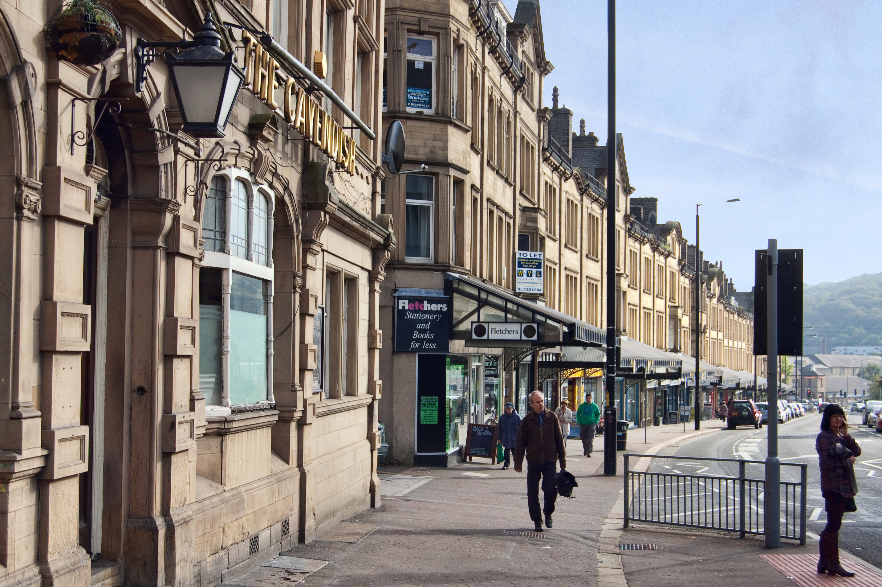 This street-level view depicts some of Keighey's fine old Victorian sandstone terraced buildings, located on Cavendish Street in the centre of town. Further pictures of the locality can be found online in this set of images.